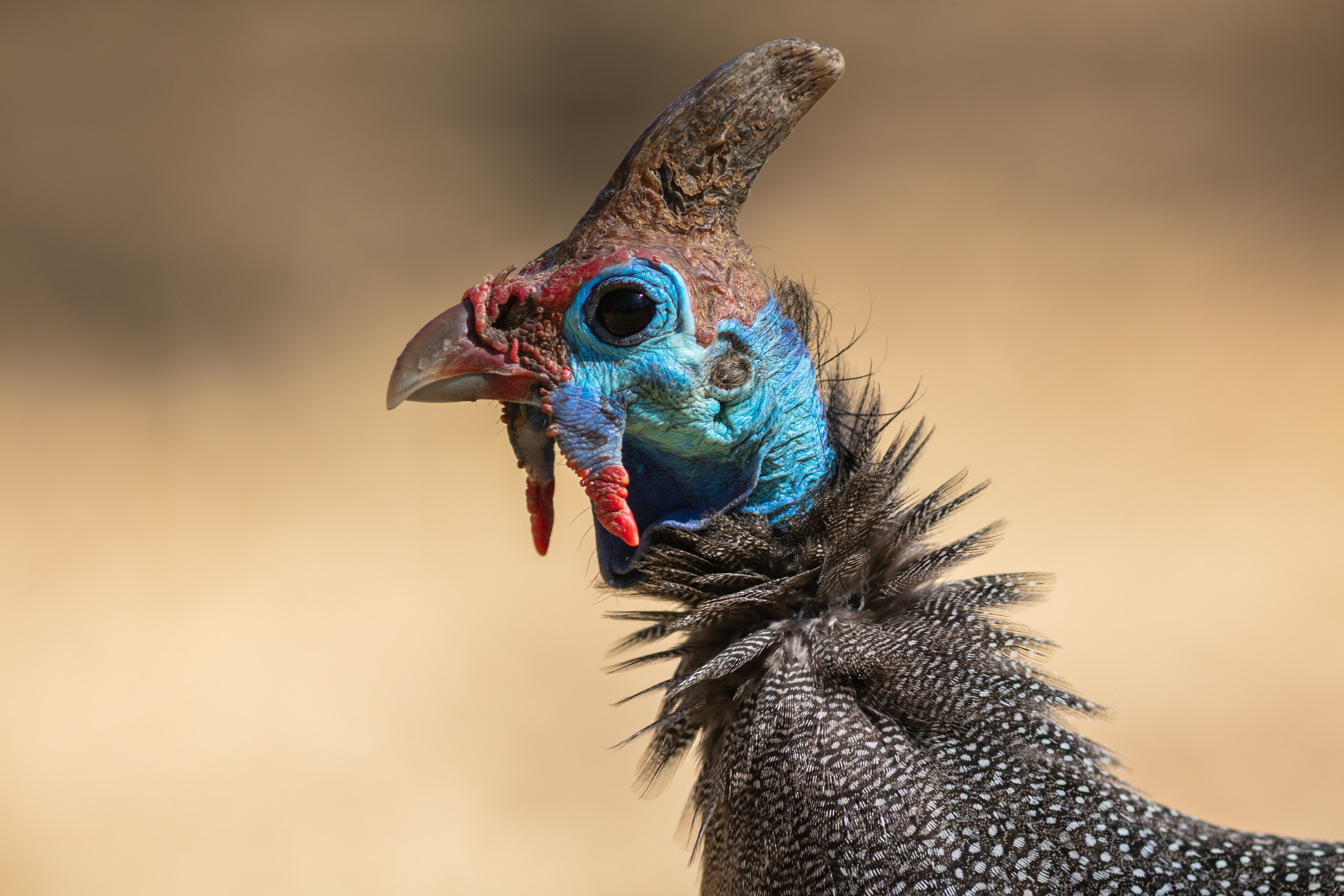 Helmeted guineafowl (Numida meleagris), Kruger National Park, South Africa